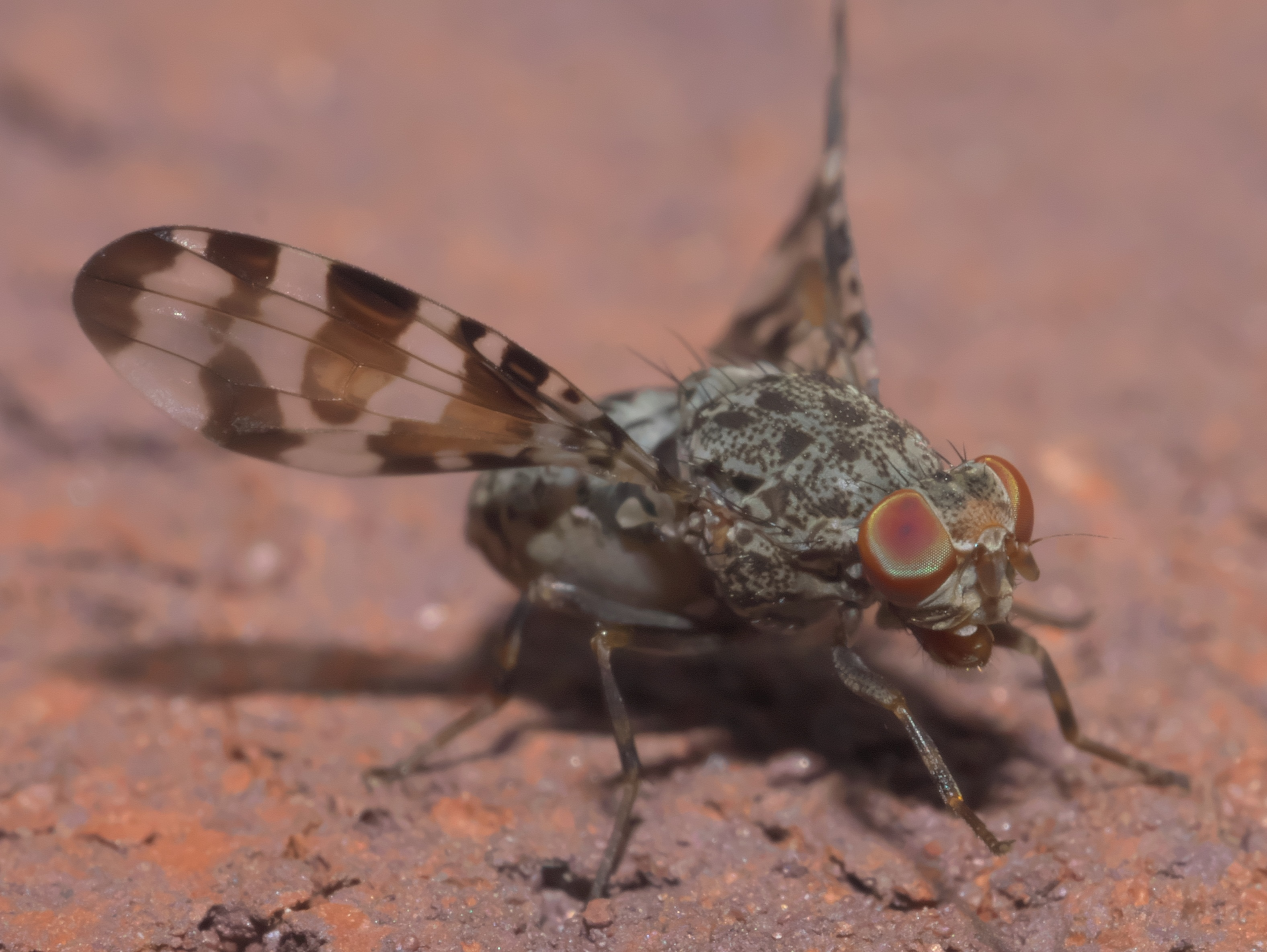 Pseudotephritis approximata, Family: Picture-winged Flies, ID Confidence: 88